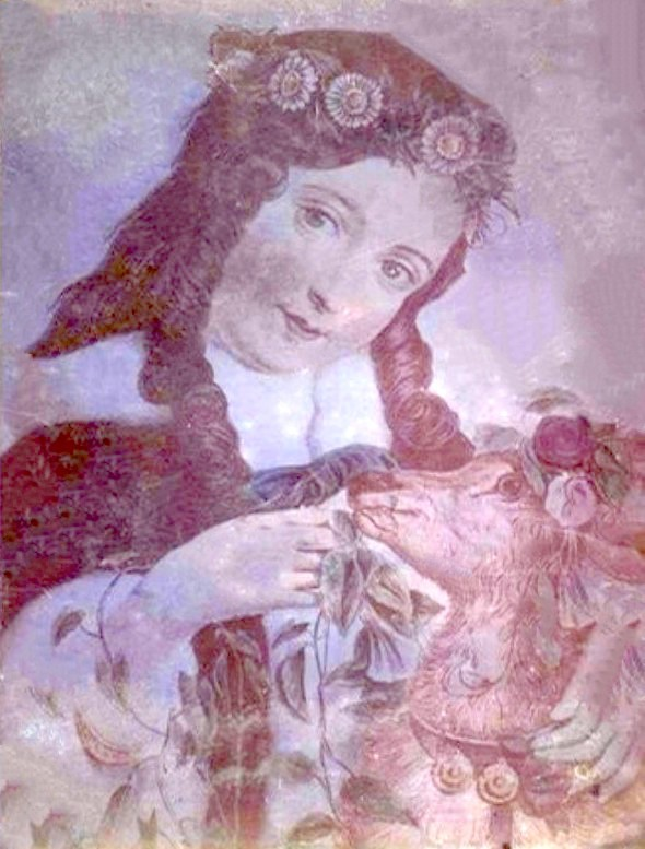 Levi Hill of Westkill, NY, claimed for the first time to have invented a way to produce naturally colored daguerreotypes, or Hillotypes, as they became known. When Hill refused to release the details of his process until a patent was filed, the profession denounced him as a fraud. In 156 years, no definitive evidence has been presented to suggest that Hill was or was not an imposter, until now. Using state-of-the-art technology, the 62 Hillotypes acquired by the Smithsonian in 1933 from Hill's son-in-law, John Boggs Garrison, finally gave up their secrets. Examination of a number of the Hillotypes by GCI scientists and curators from the Smithsonian�s photography collection have confirmed that Hill was indeed a genius - he did discover a method to create several natural colors in his photographs.